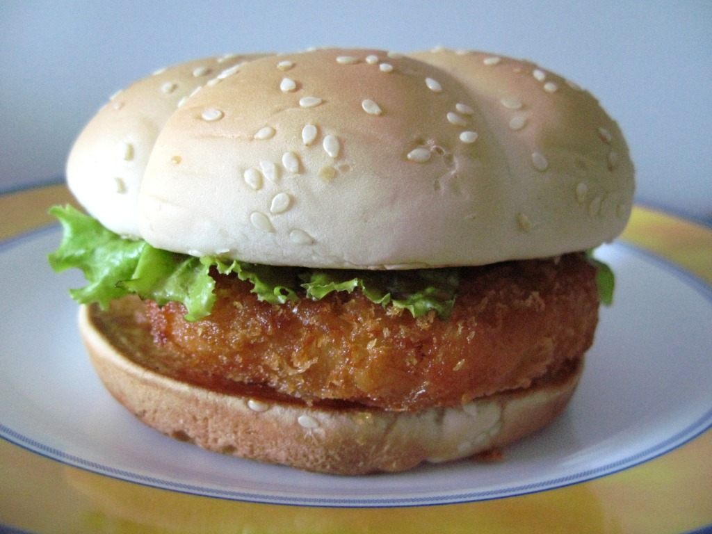 Shrimp burger from KFC in Binh Thanh district, Ho Chi Minh City, Vietnam.